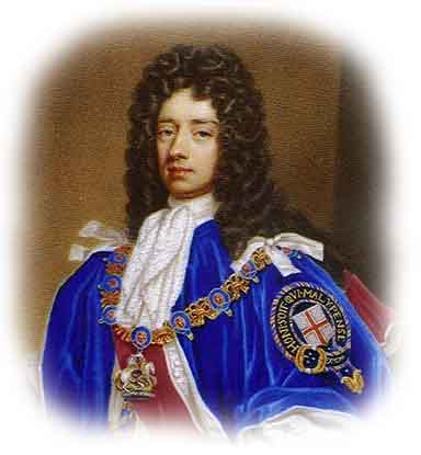 John Manners, 2nd Duke of Rutland (1676-1721)